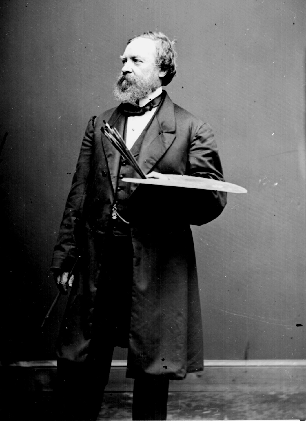 Constantino Brumidi, artist who painted murals and frescoes in the Capitol; three-quarter-length, standing, holding brush and palette